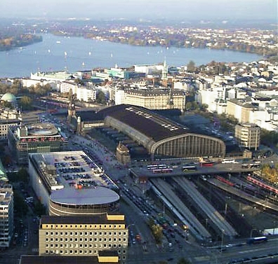 Central station Hamburg, with Außenalster in background.